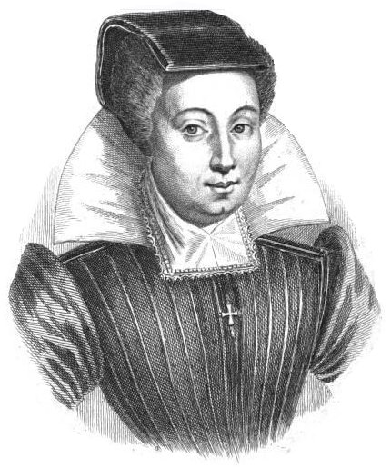 sketch